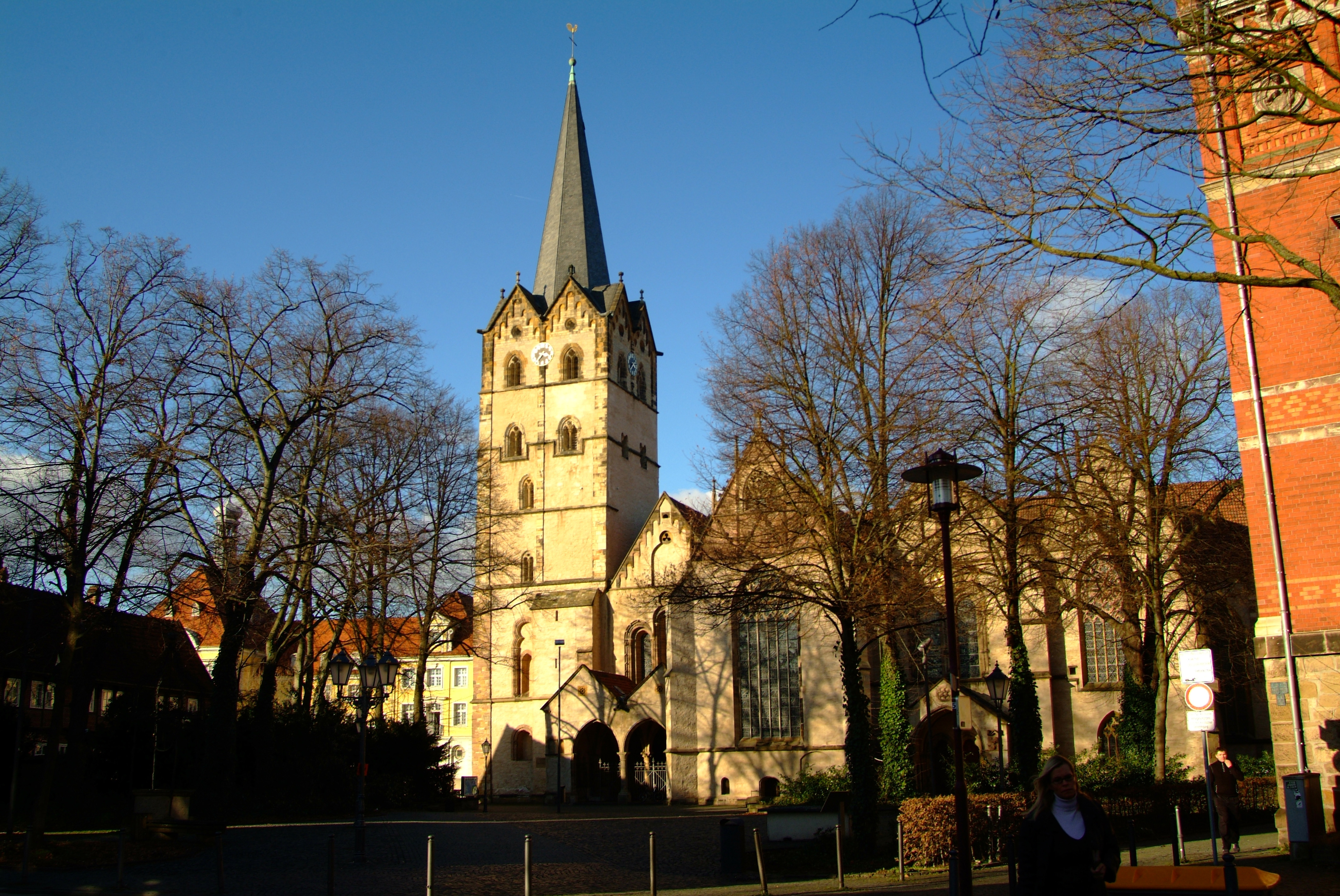 The Muensterkirche in in town of Herford, District of Herford, North Rhine-Westphalia, Germany. During the middleages it was a famous monastery for the education of upperclass daughters. The photo shows the south side of the building.